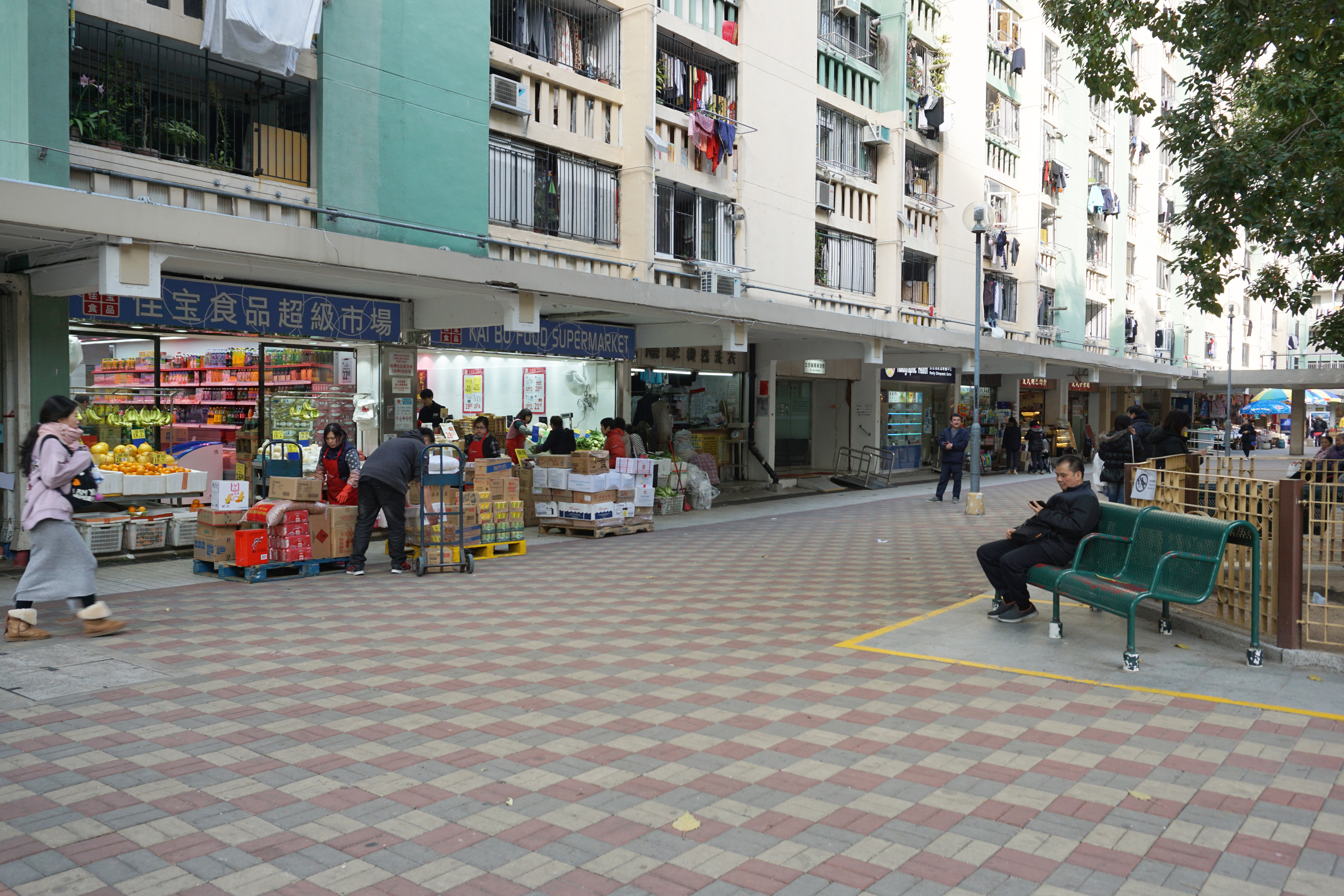 Chiu Man House in Ho Man Tin, Hong Kong.